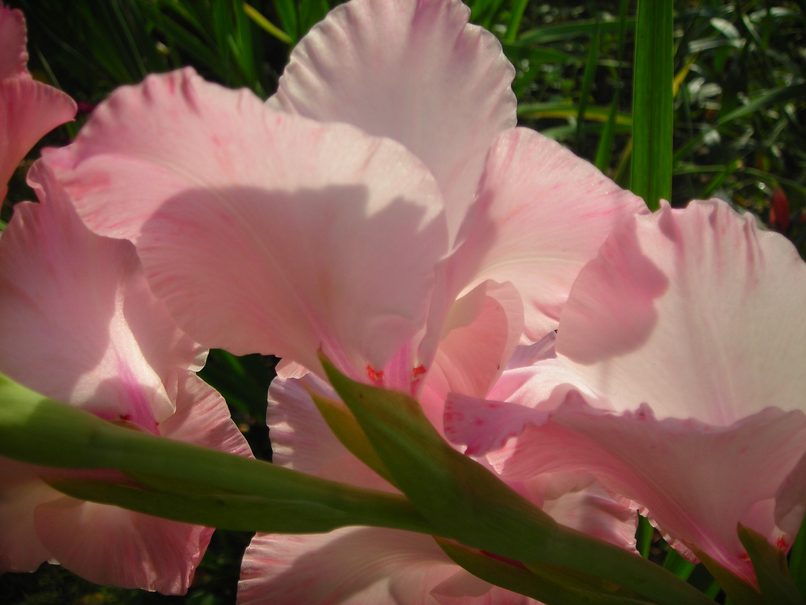 Gladiolus pink